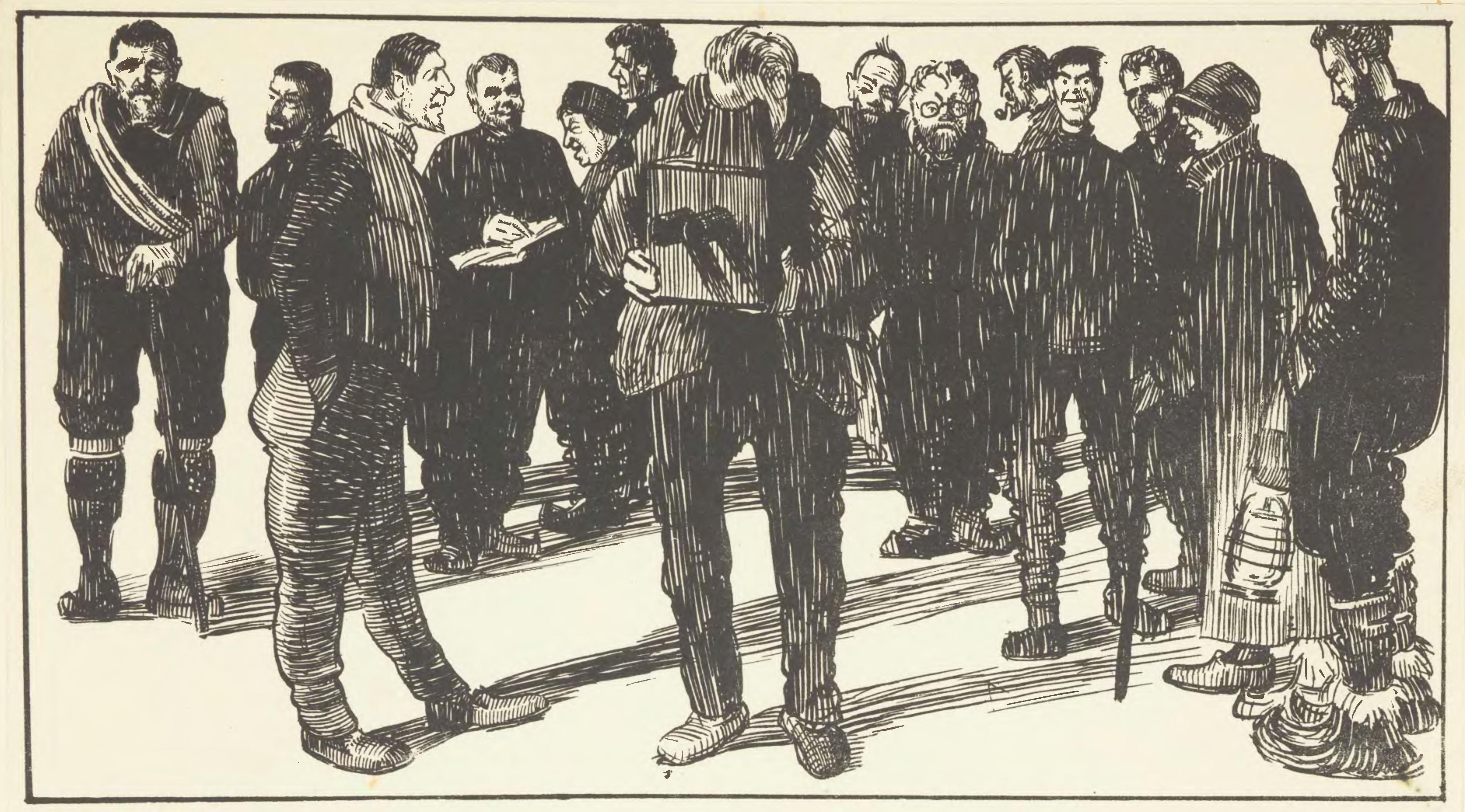 Etching by George Marston from Aurora Australis